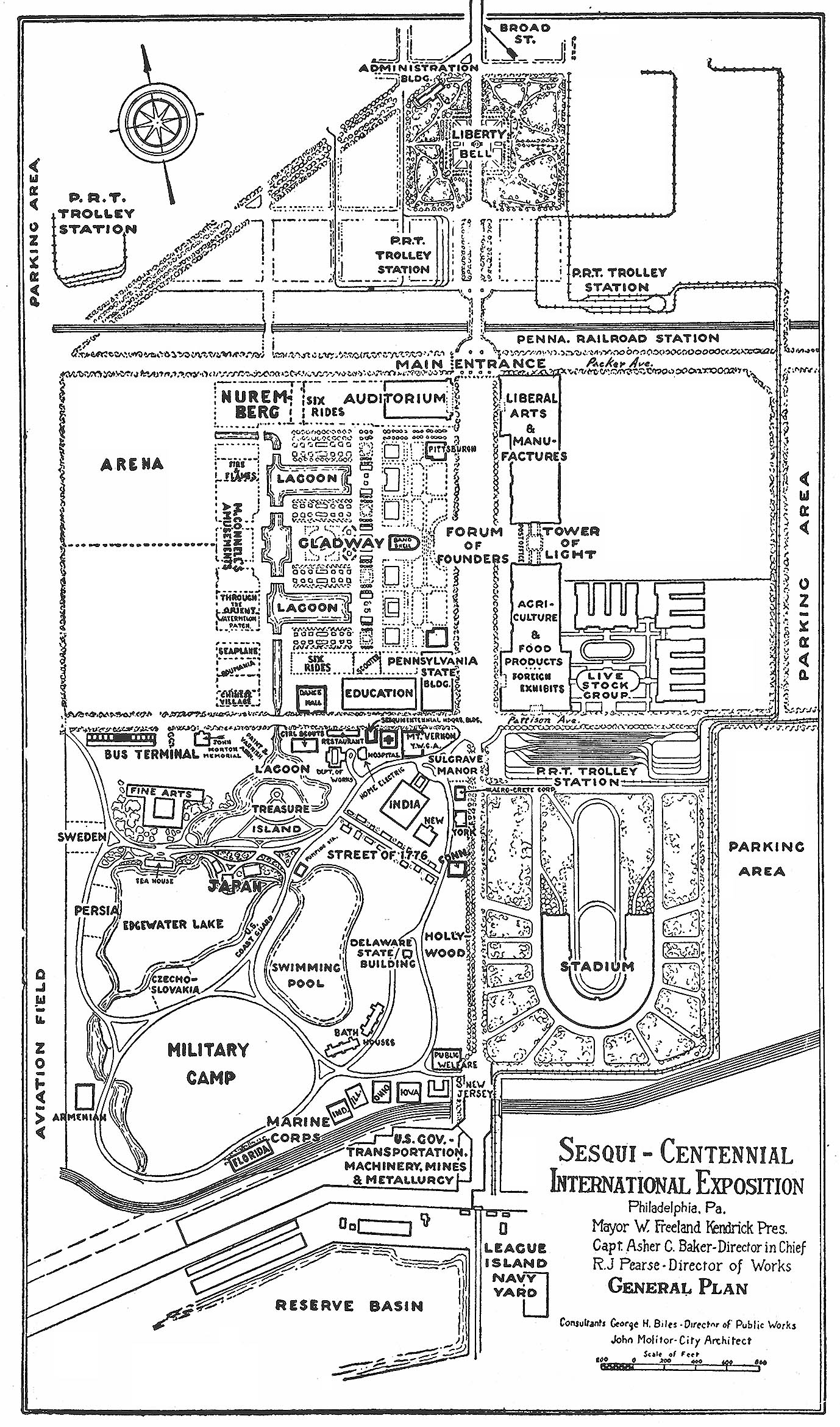 Map of the grounds of the 1926 Seaqui-Centennial Exposition, Philadelphia, PA.